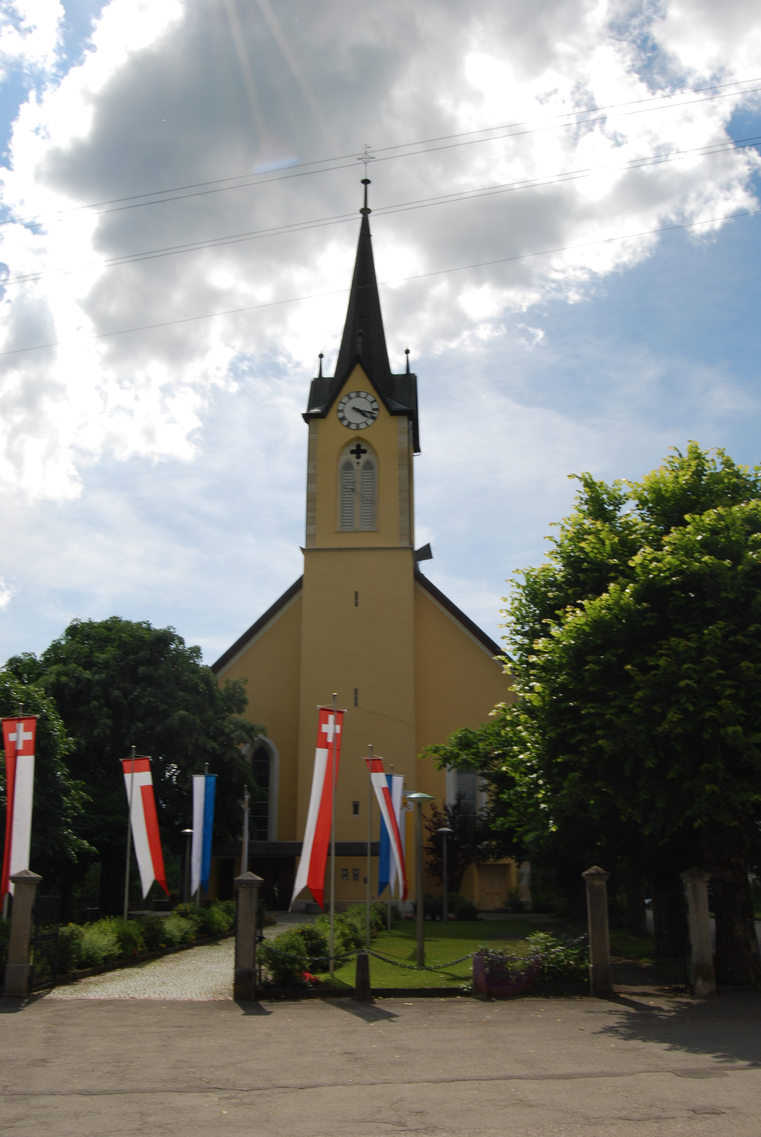 Catholic church of Nunningen and Zullwil at Oberkirch, canton of Solothurn, Switzerland